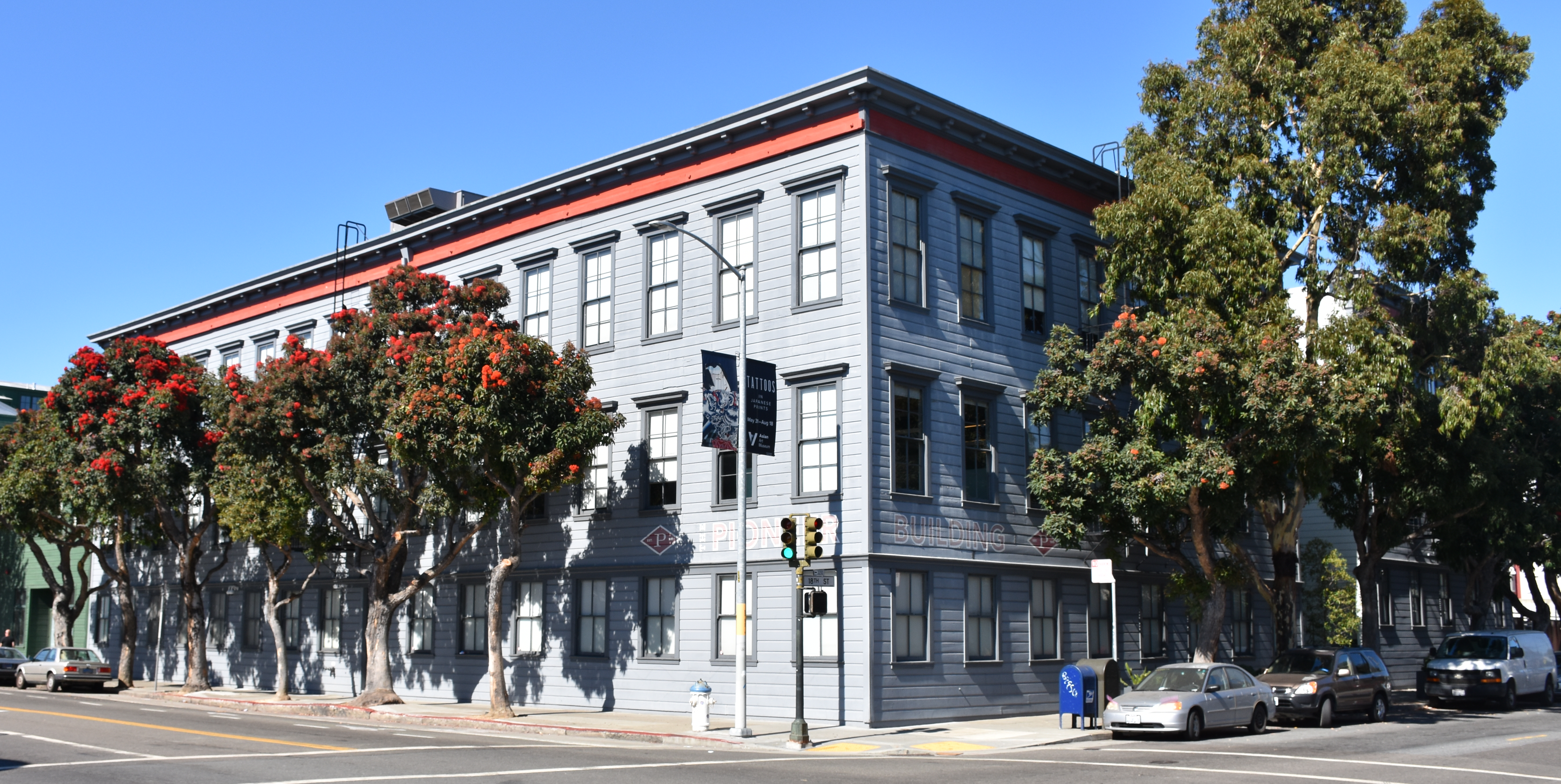 The Pioneer Building in San Francisco's Mission District, housing the offices of Neuralink and OpenAI